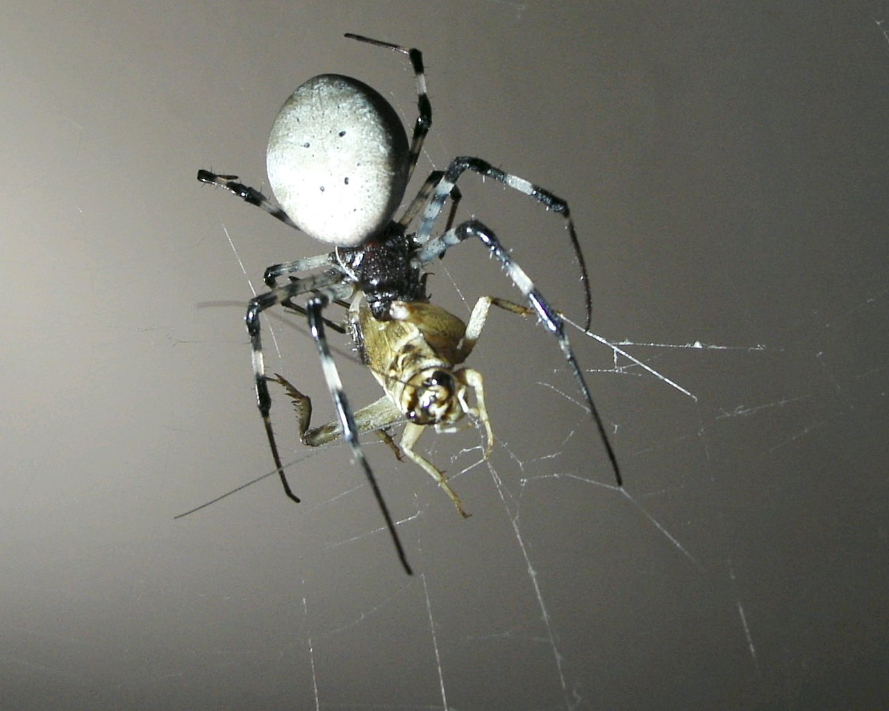 Nephilengys livida catching a cricket.